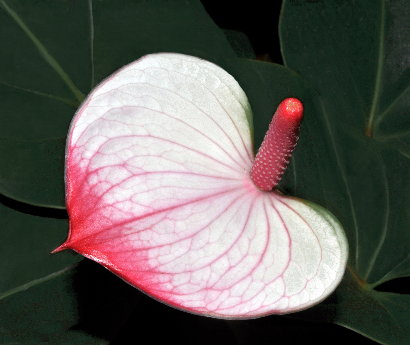 Anthurium andraeanum Princess Amalia Elegance in the botanical garden Berggarten in Herrenhausen near Hanover, Germany.